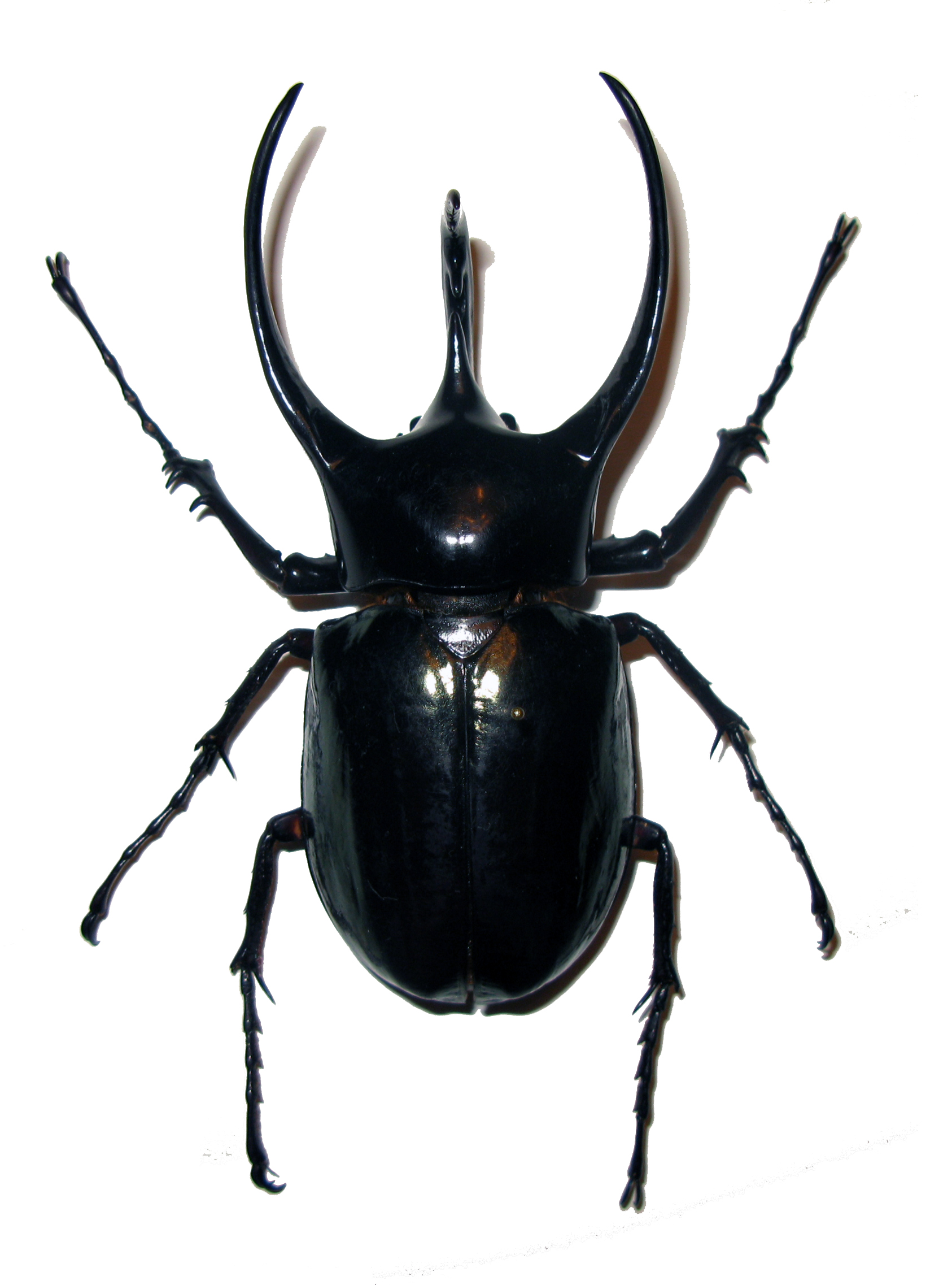 Chalcosoma caucasus